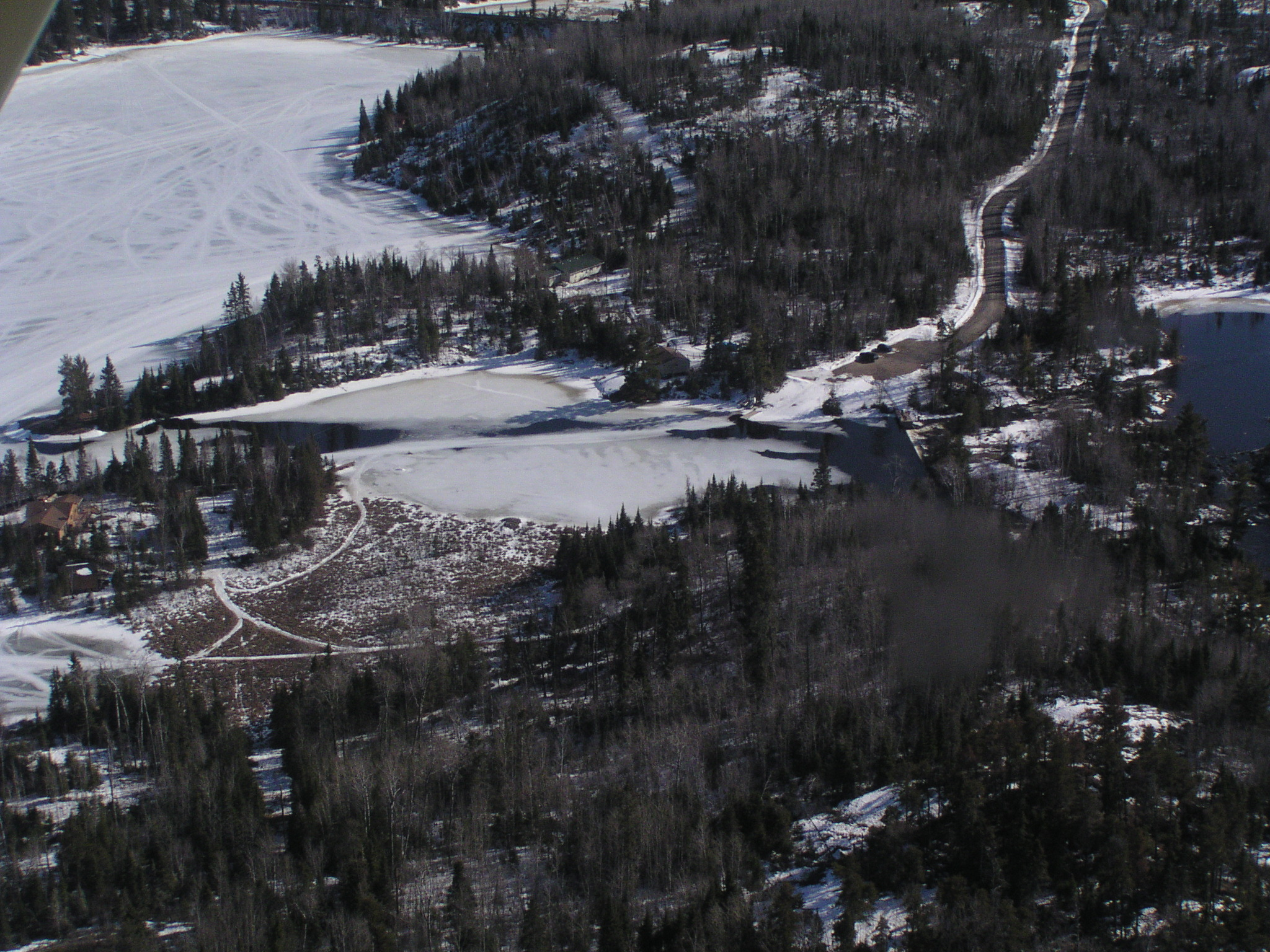 aerial photo of Ena Lake Dam and Landing